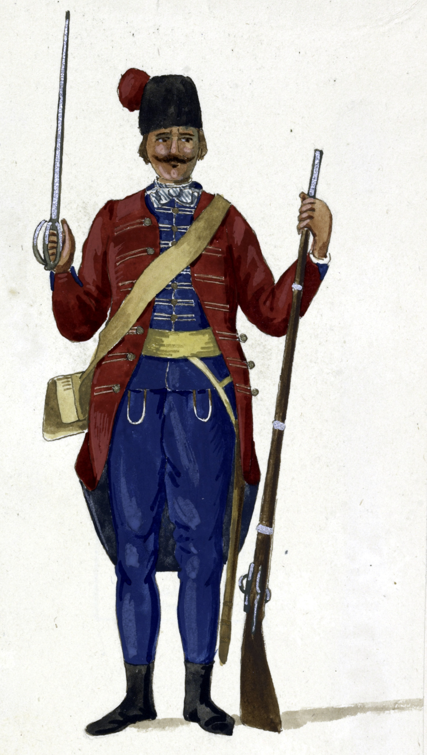 Slavic militia (Schiavoni) in the service of the Republic of Venice, 18th century